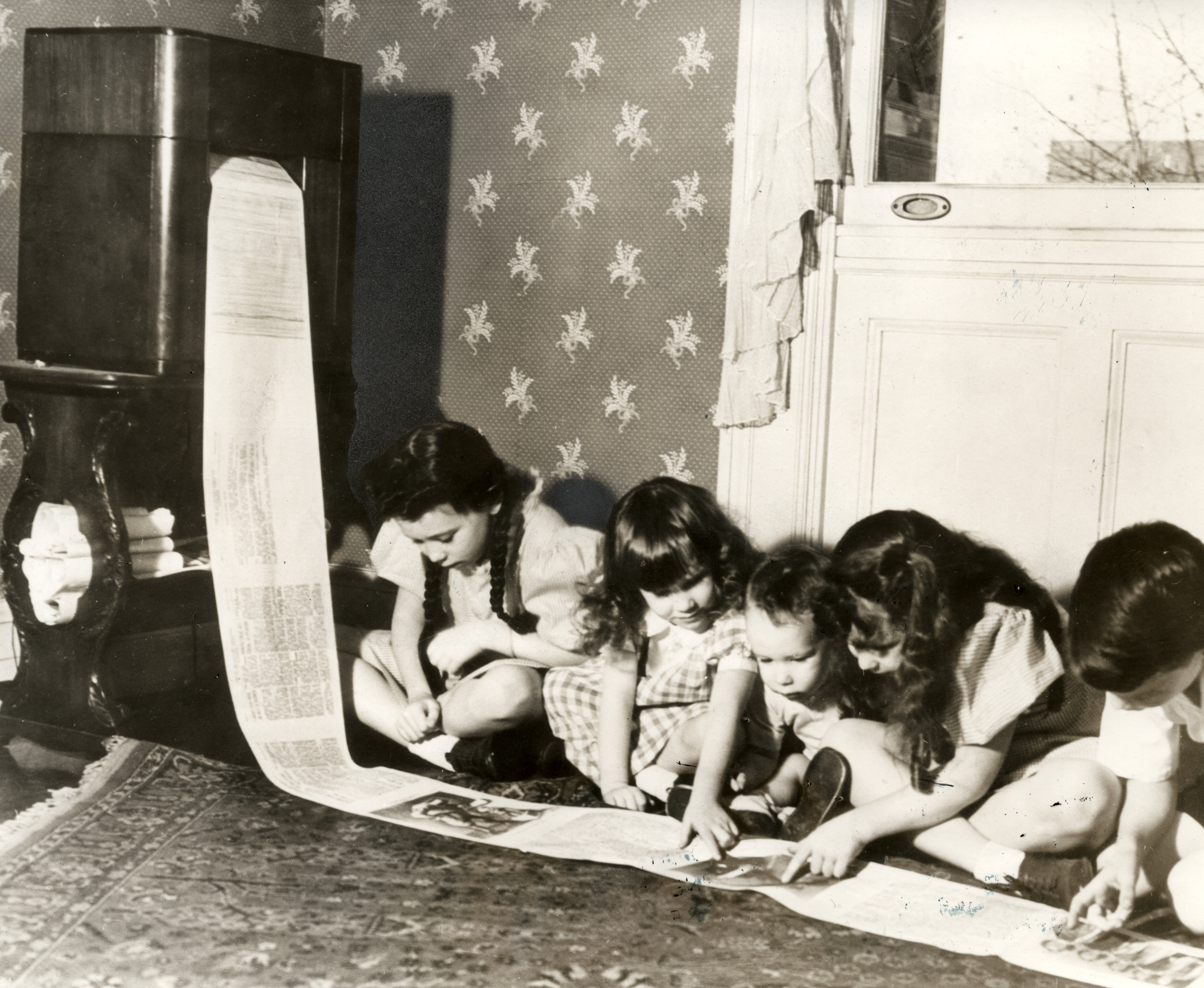 Nationaal Archief / Spaarnestad Photo / Het Leven / Fotograaf onbekend, SFA022813039. In 1938 wordt vanuit het New Yorkse radiostation WOR de eerste draadloze krant uitgezonden, die in de huiskamer is te ontvangen. Foto: een aantal kinderen leest de kinderpagina van een radiokrant uit Missouri. In 1938 the first wireless newspaper was sent from WOR radiostation in New York. Photo shows children reading the children’s page of a Missouri paper. Collectie Spaarnestad Voor meer informatie en voor meer foto’s uit de collectie van Spaarnestad Photo, bezoek onze Beeldbank: U kunt ons helpen onze kennis van de fotocollecties te verrijken door tags en commentaren toe te voegen. Herkent u mensen of locaties of heeft u een bijzonder verhaal te vertellen bij één van de foto’s, laat dan een reactie achter (als u ingelogd bent bij Flickr) of stuur een mailtje naar: You can help us gain more knowledge on the content of our collection by simply adding a comment with information. If you do not wish to log in, you can write an e-mail to